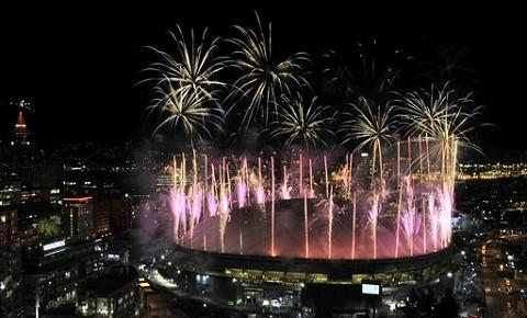 Fireworks explode over the BC Place after the closing ceremony of the Winter Olympics in Vancouver, 28 Feb. 2010